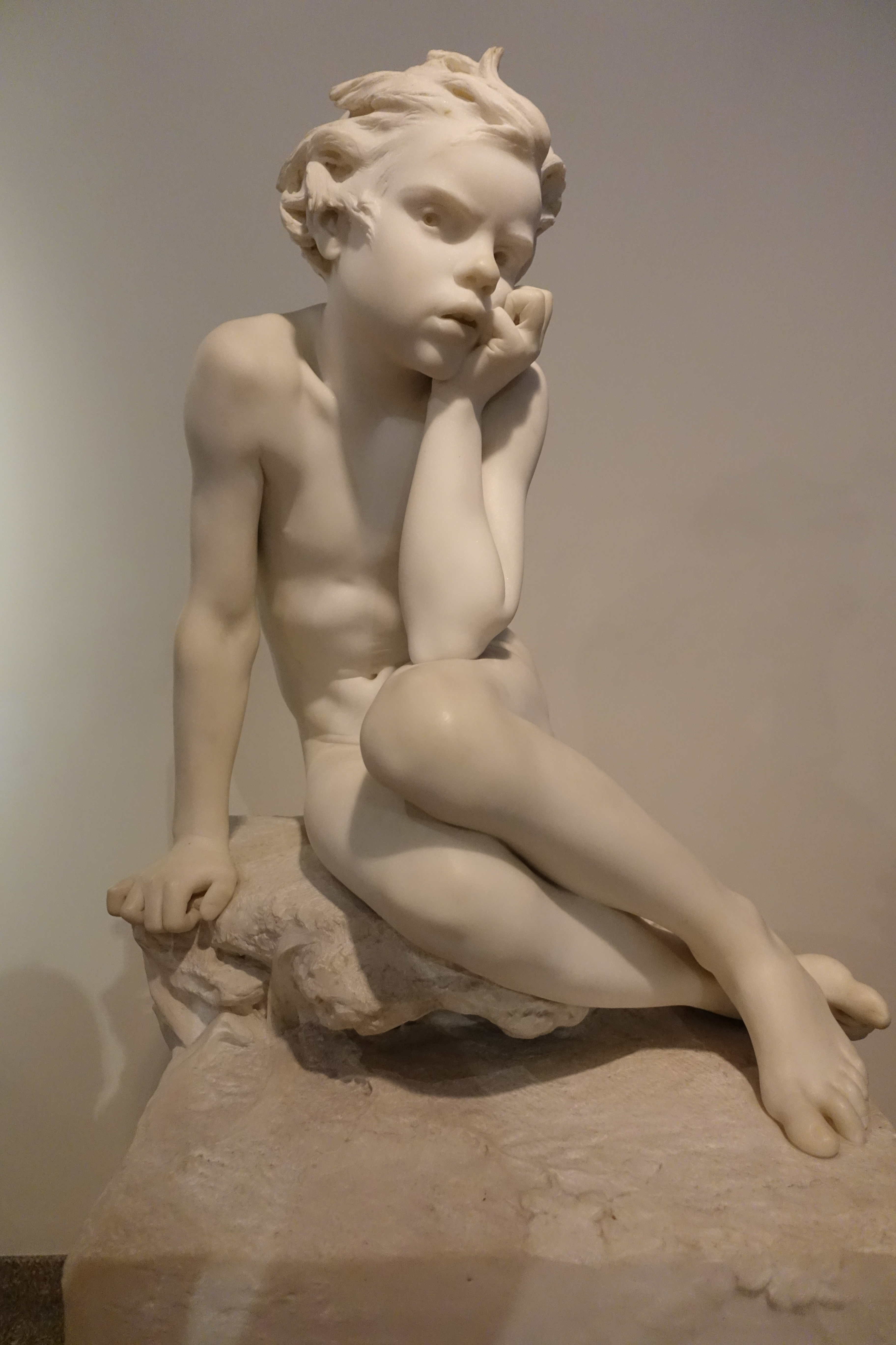 Statue in the Museu Nacional de Soares dos Reis, Porto, Portugal.